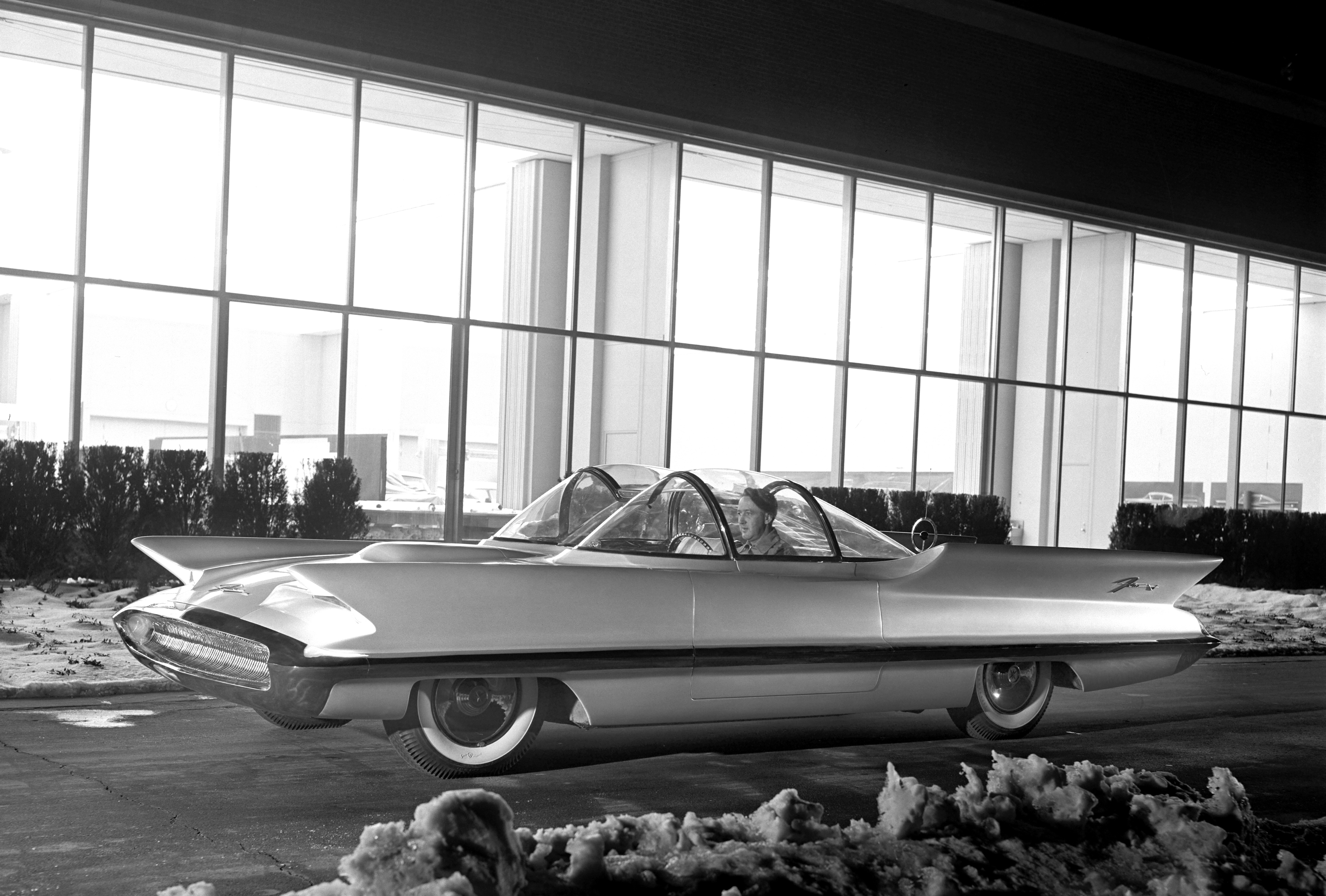 Concept Car Collection